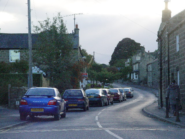 Hampsthwaite.